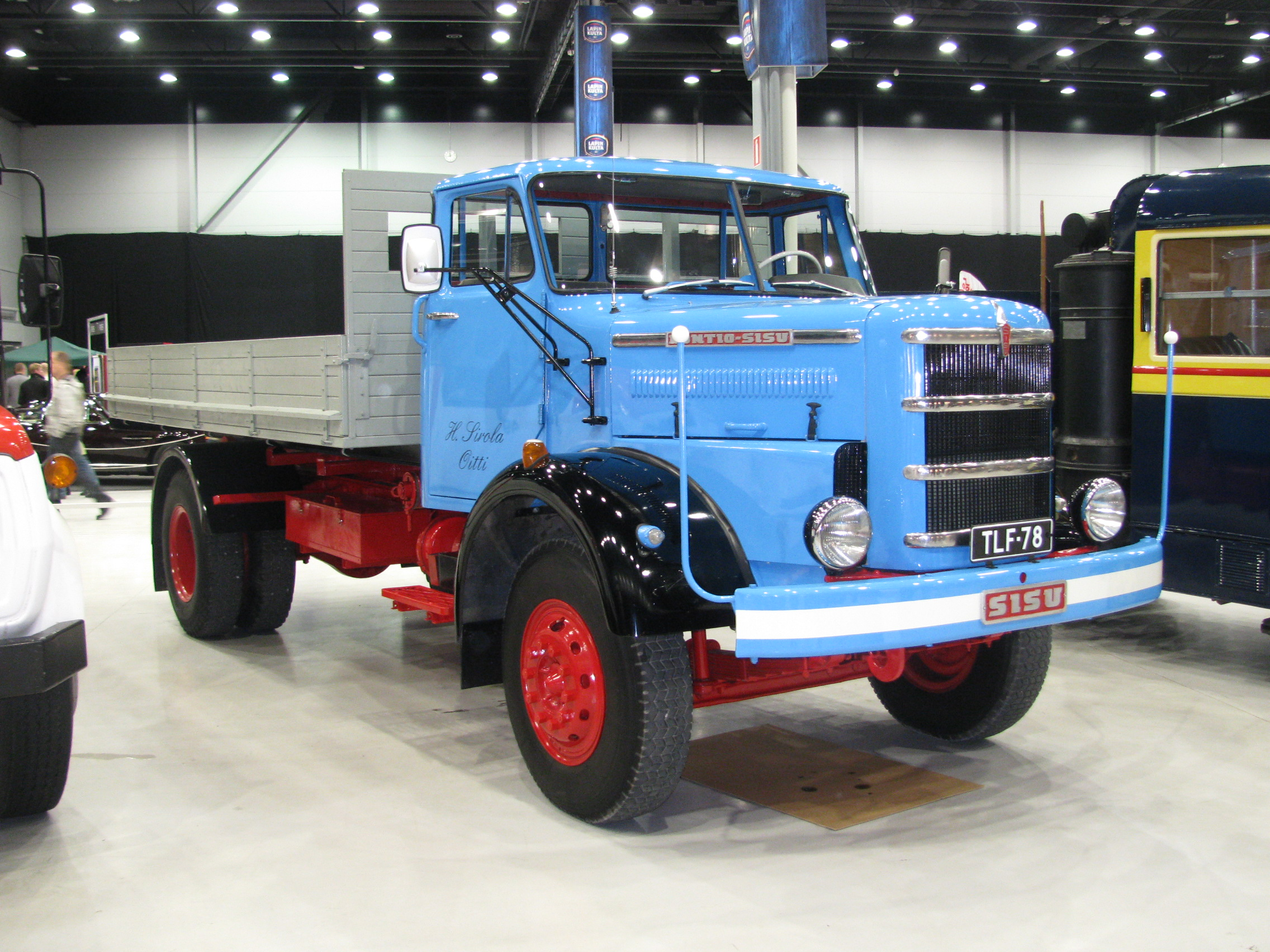 Sisu K-138SV with Leyland O.400 engine. Classic Motor Show in Lahti, Finland.